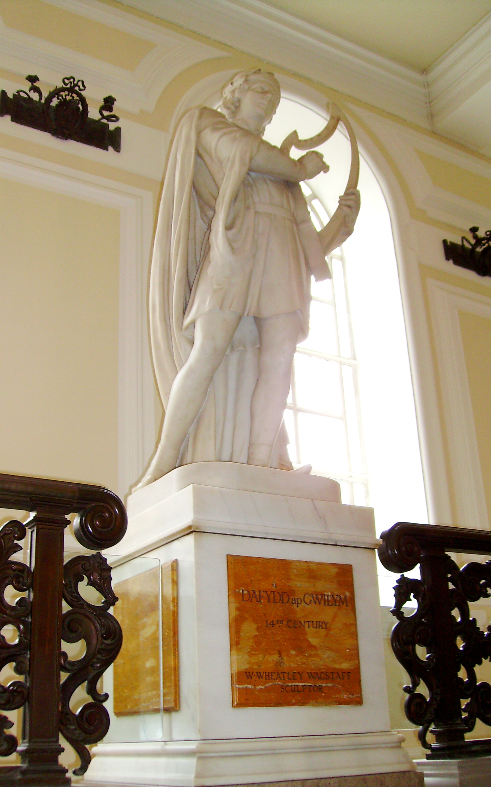 Sculpture of Dafydd ap Gwilym by sculptor William Wheatley Wagstaff (1880-19??), Cardiff City Hall, Cardiff, Wales.